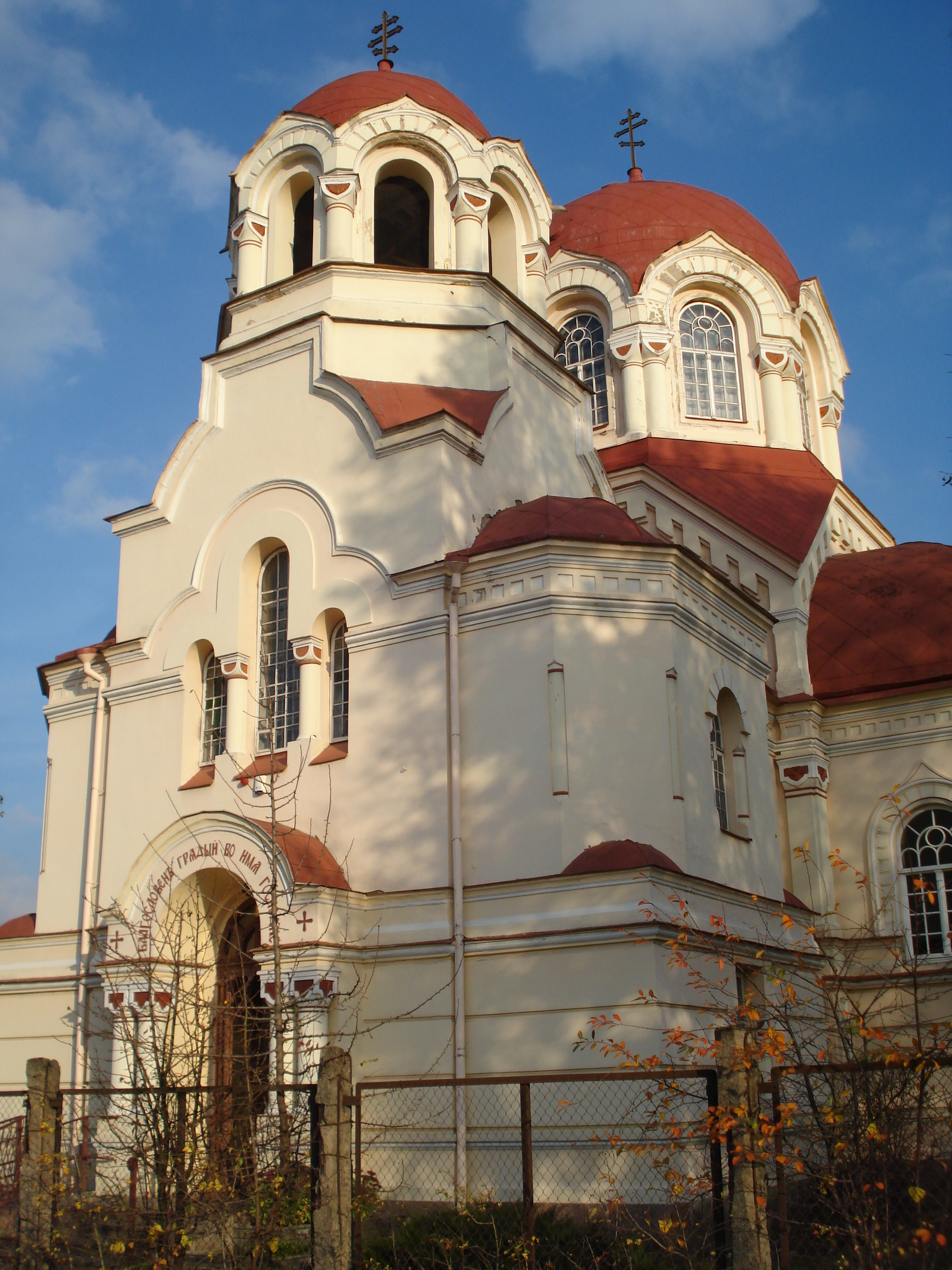 Russian Orthodox Church of St. Michael the Archangel in Vilnius (Kalvarijų g. 65). Built 1895